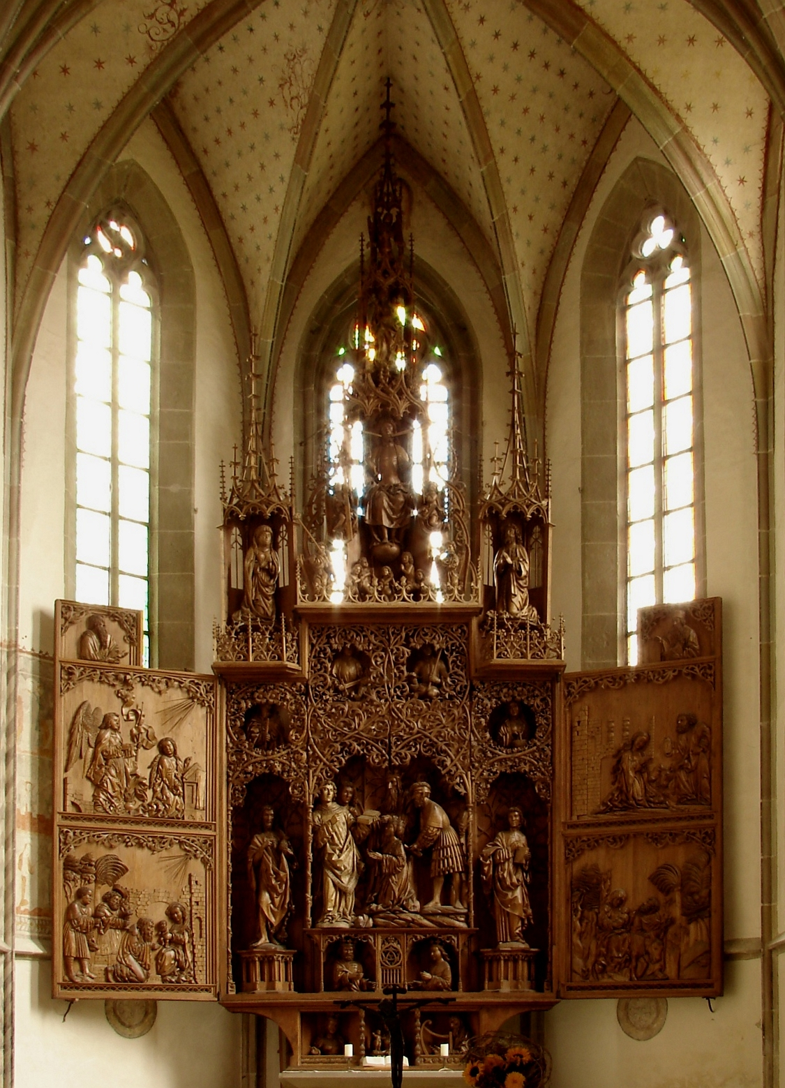 Besigheim, Germany, wooden altar from early 16th century in the protestant town church